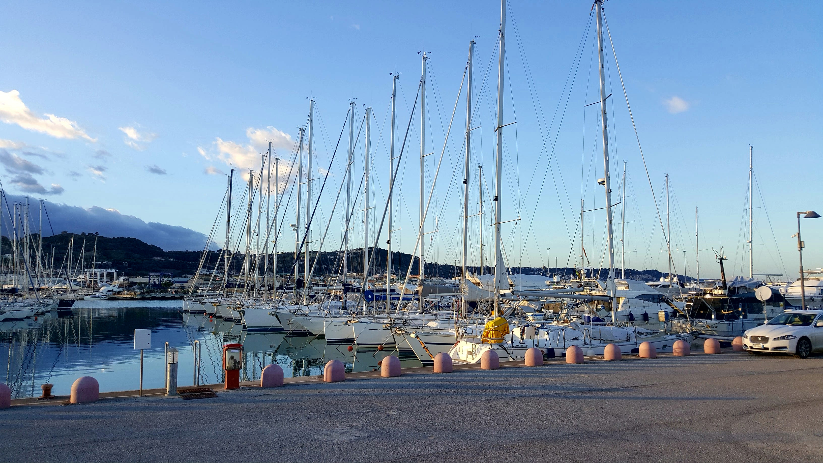 Glimpse of the tourist port of San Benedetto del Tronto